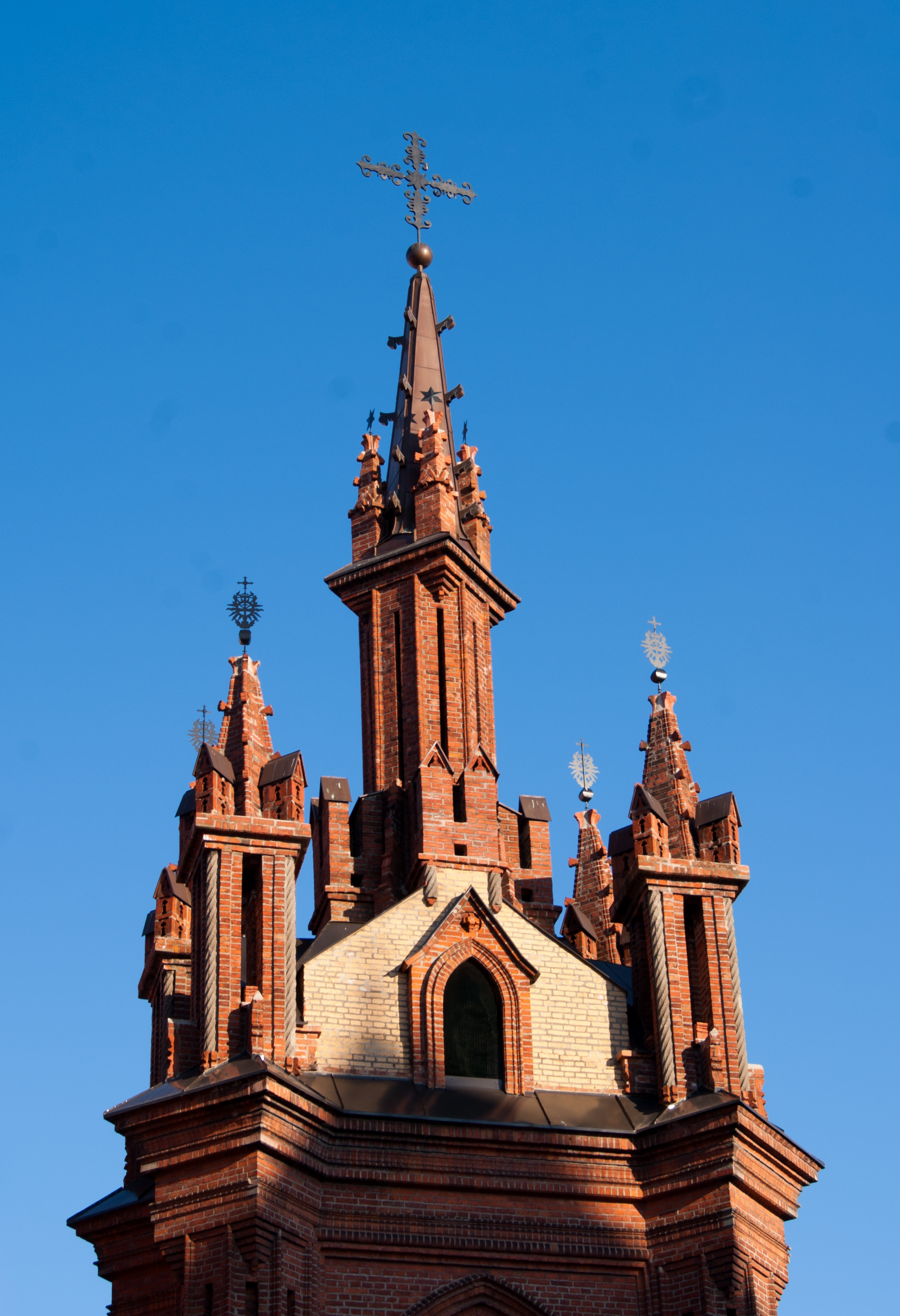 Belfry of the Saint Anne church in Vilnius